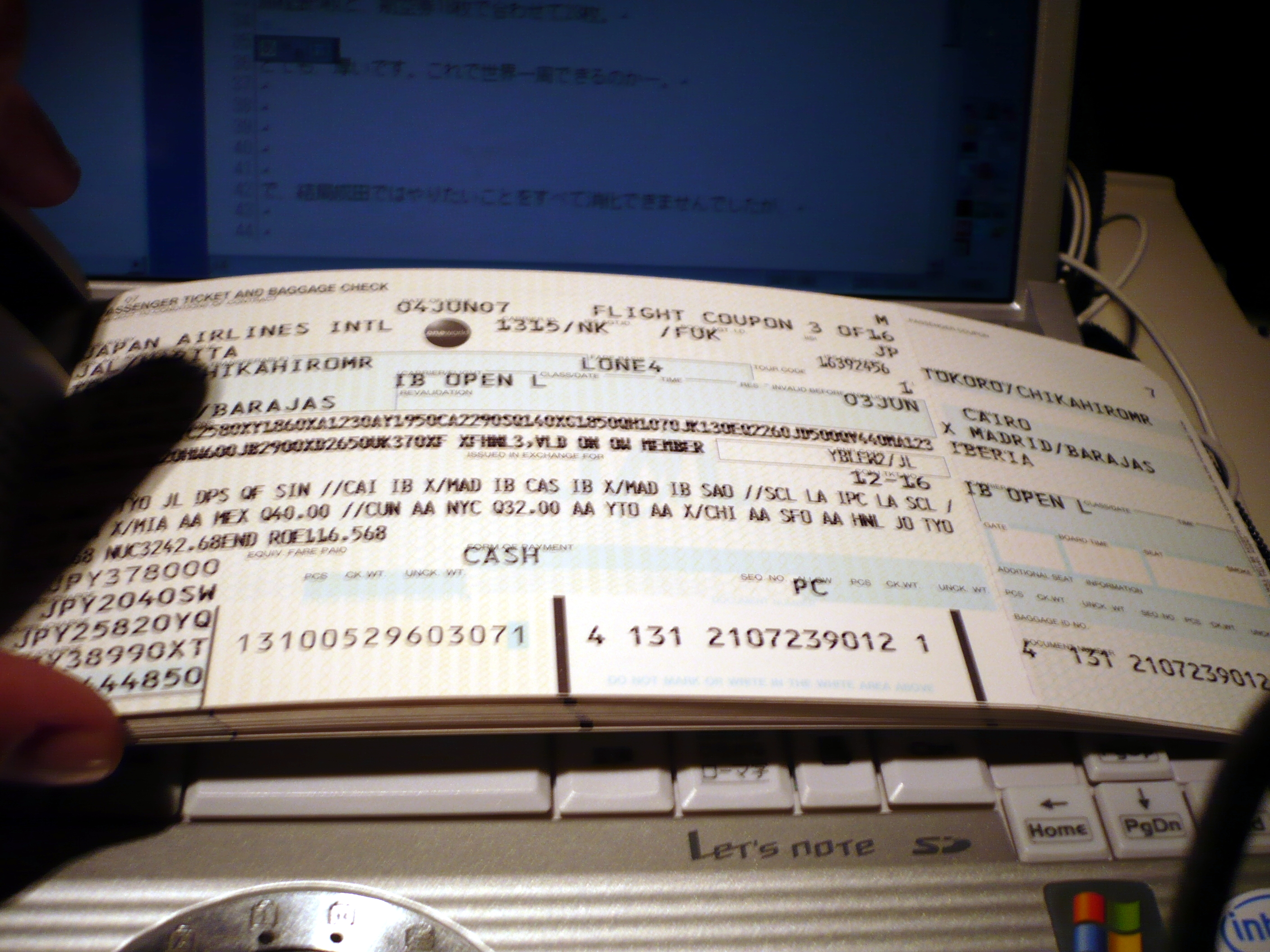 An air ticket issued by Japan Airlines